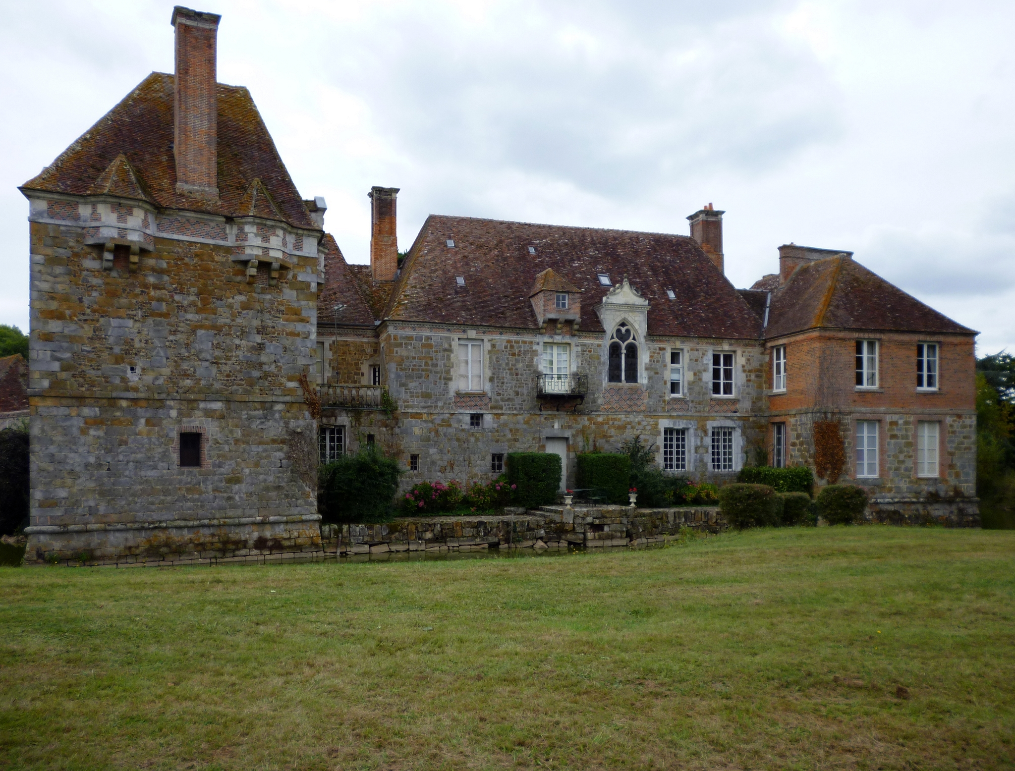 Third side of Château du Blanc-Buisson in Saint-Pierre-du-Mesnil (Eure, France).